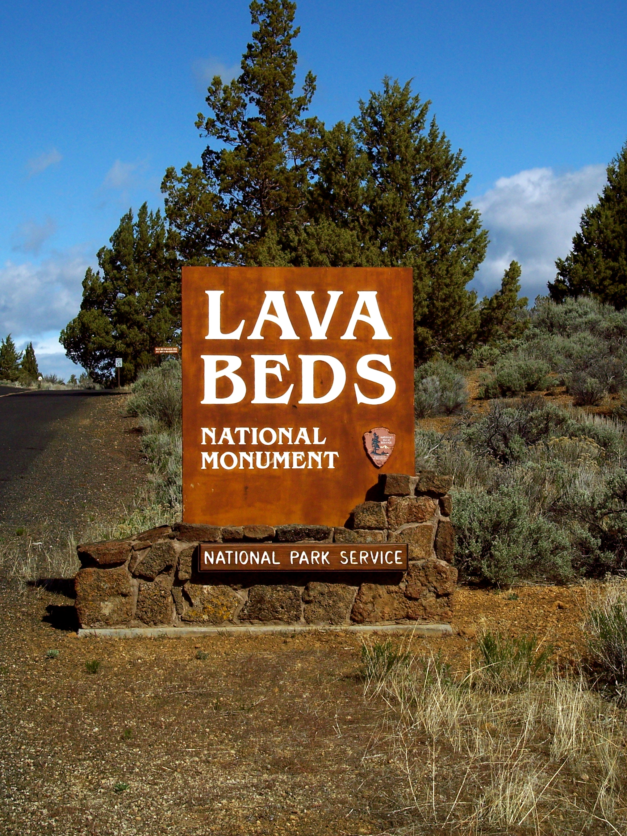 Park sign at the southeastern entrance to Lava Beds National MonumentLava Beds National Monument. Located in Modoc County, Northeastern California.